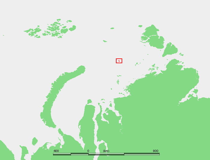 Location of Einsamkeit Island